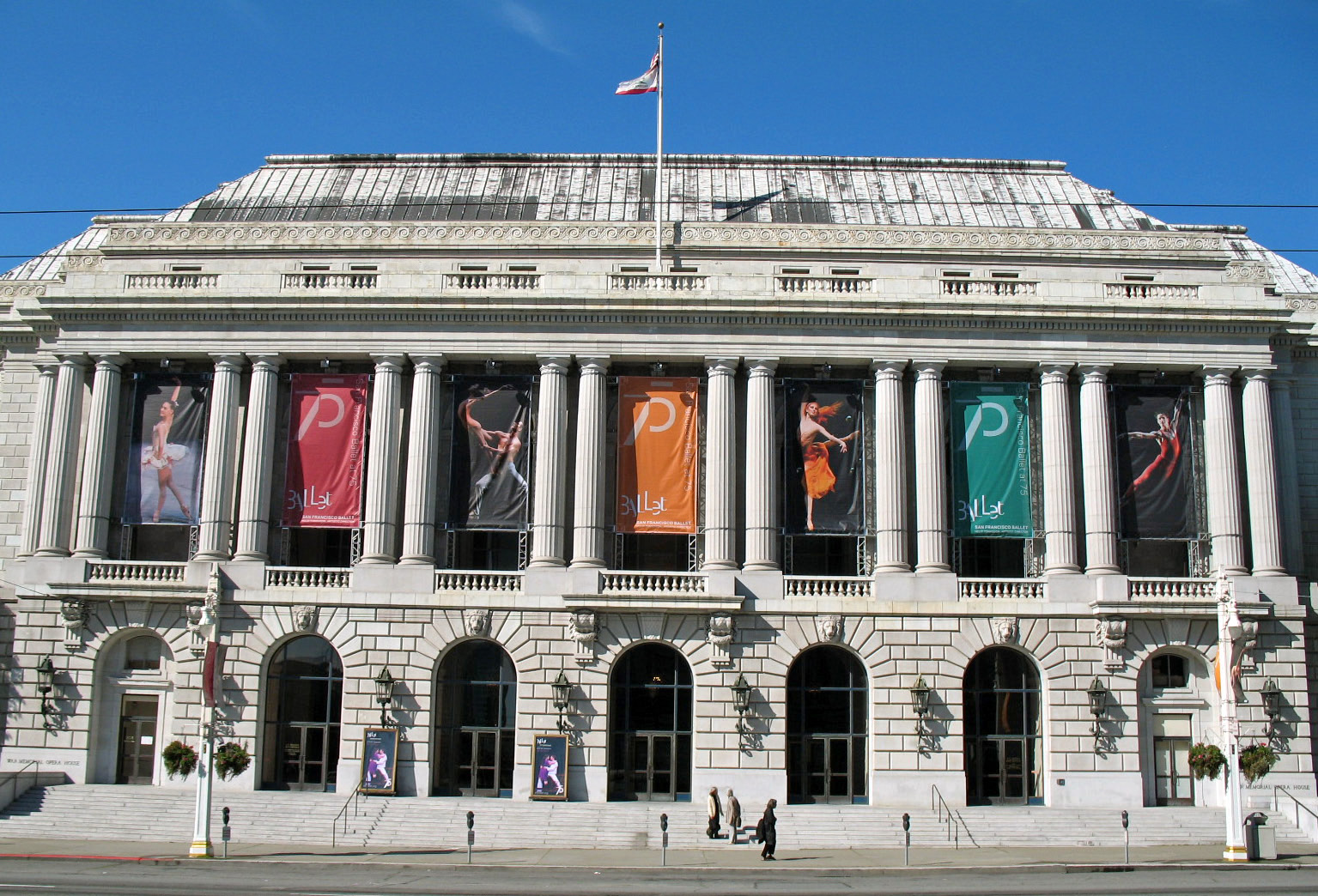 National Register of Historic Places in San Francisco, California. War Memorial Opera House, 309 Van Ness Ave, San Francisco, California, USA. Photographed 2008-03-08 by Mike Hofmann from the sidewalk on the east side of Van Ness Ave in front of City Hall. The War Memorial complex includes the Veterans Building, the Opera House and War Memorial Court. All are part of the San Francisco Civic Center Historic.